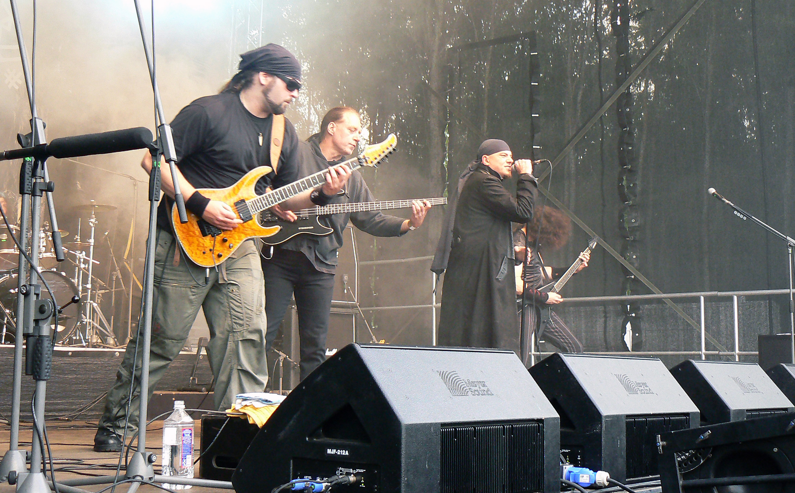 Mekong Delta at "Kilkim žaibu XII", Lithuania.